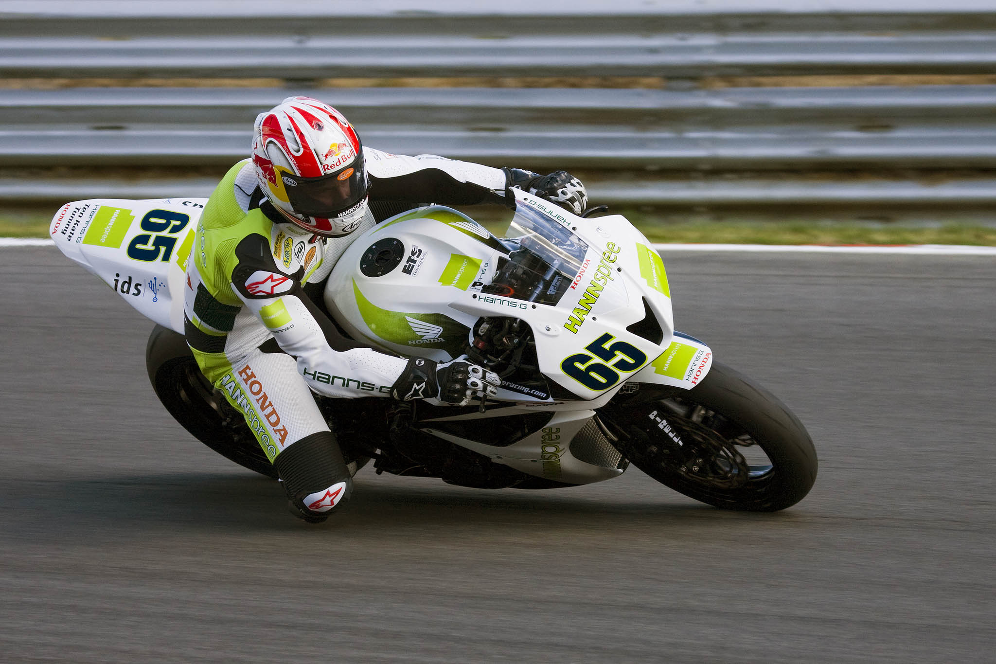 Jonathan Rea - World Superbikes meeting at Brands Hatch August 2008. Supersport Practice